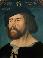 Portrait of "Bernhard Meyer zum Pfeil" (1488-1558); master from Basel (end of 15th century, beg. of 16th century)